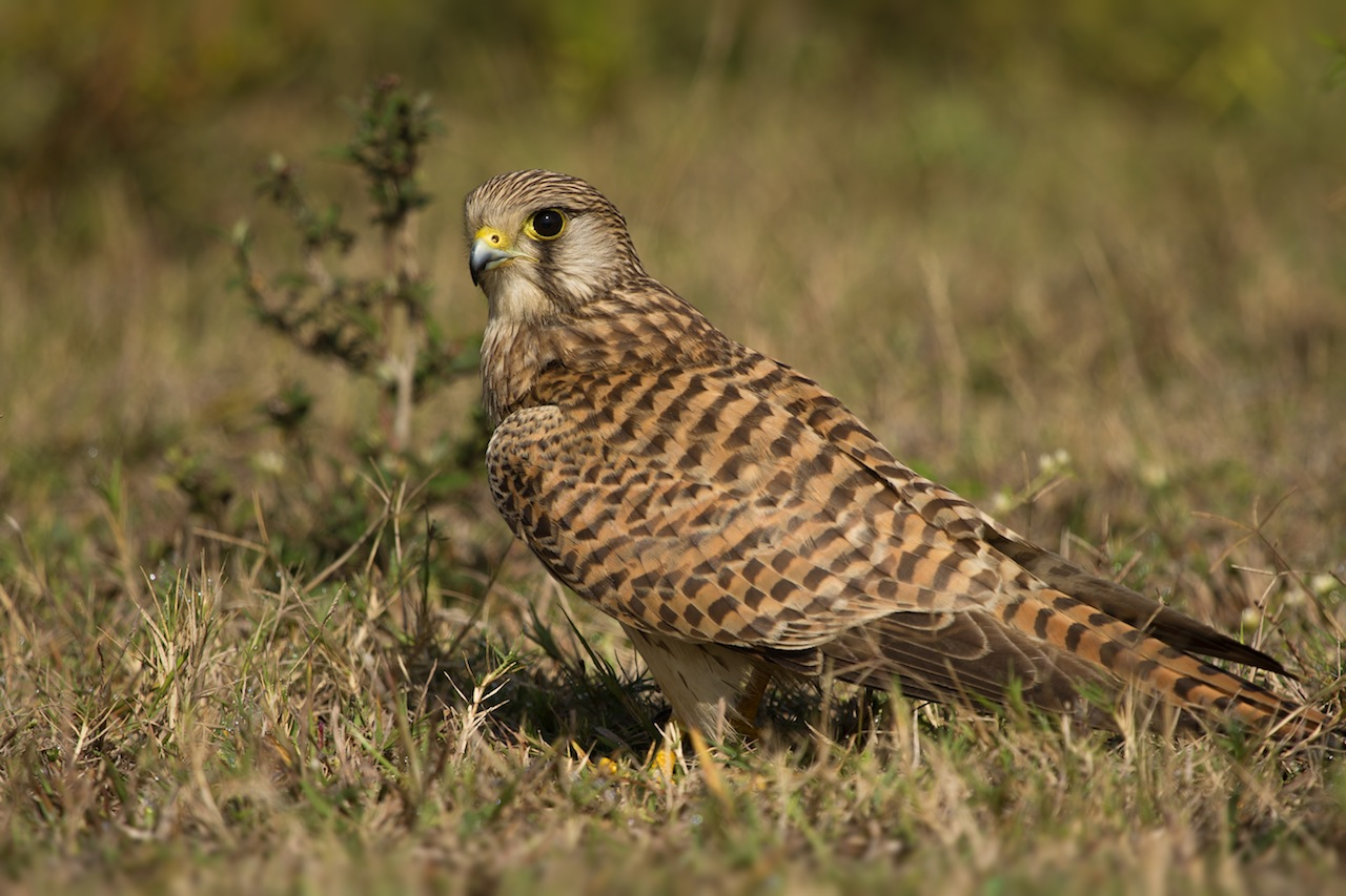 From Hesarghatta Grasslands, Bangalore